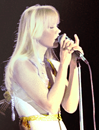 Agnetha Fältskog, ABBA, Ekeberghallen, Oslo, Norway; this is a colourised version of the greyscale photo of Agnetha.